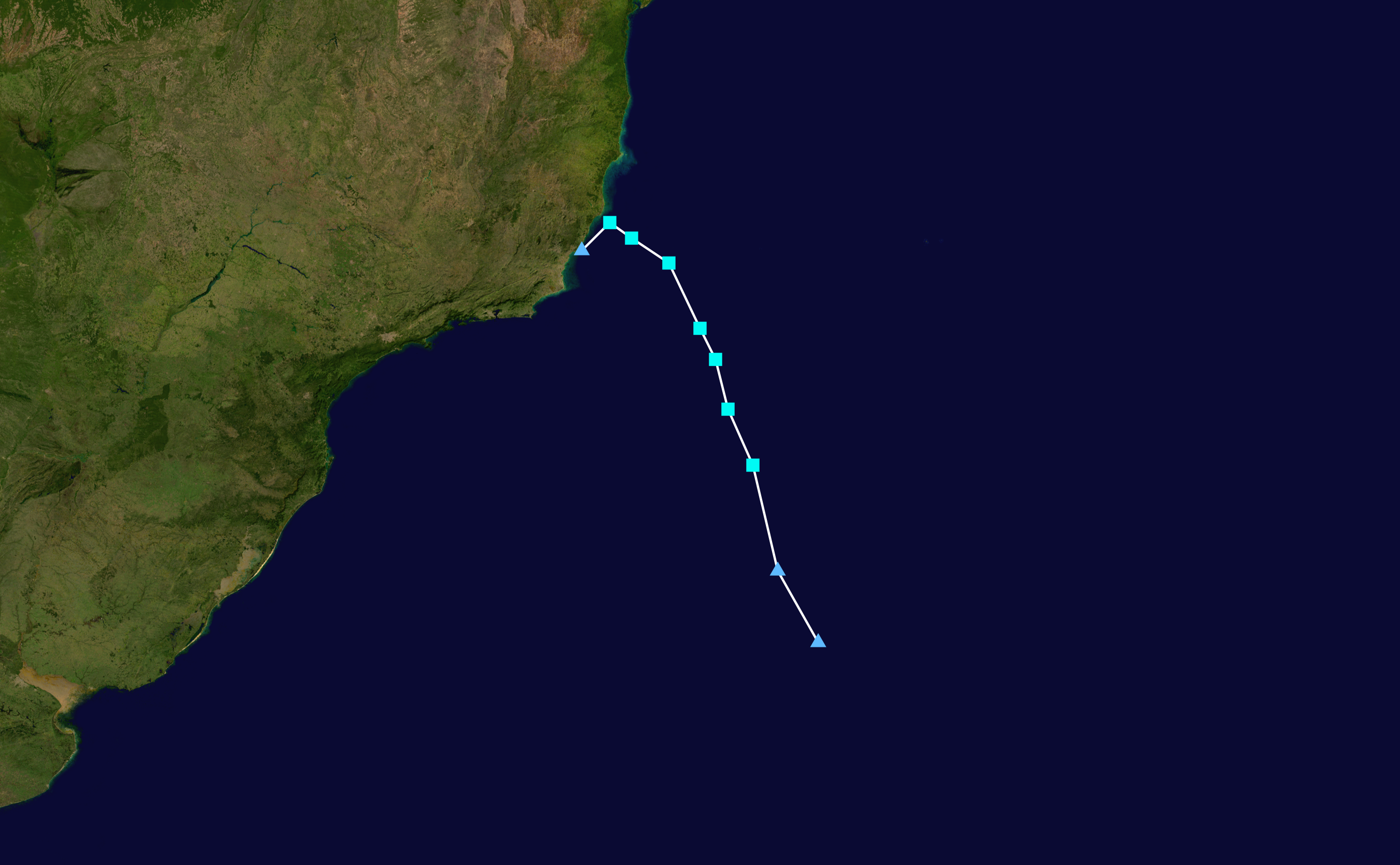 Track map of Subtropical Storm Guará of the South Atlantic tropical cyclone. The points show the location of the storm at 6-hour intervals. The colour represents the storm's maximum sustained wind speeds as classified in the Saffir–Simpson scale (see below), and the shape of the data points represent the nature of the storm, according to the legend below. Saffir–Simpson scale Tropical depression≤38 mph≤62 km/h Category 3111–129 mph178–208 km/h Tropical storm39–73 mph63–118 km/h Category 4130–156 mph209–251 km/h Category 174–95 mph119–153 km/h Category 5≥157 mph≥252 km/h Category 296–110 mph154–177 km/h Unknown Storm type Tropical cyclone Subtropical cyclone Extratropical cyclone / Remnant low / Tropical disturbance